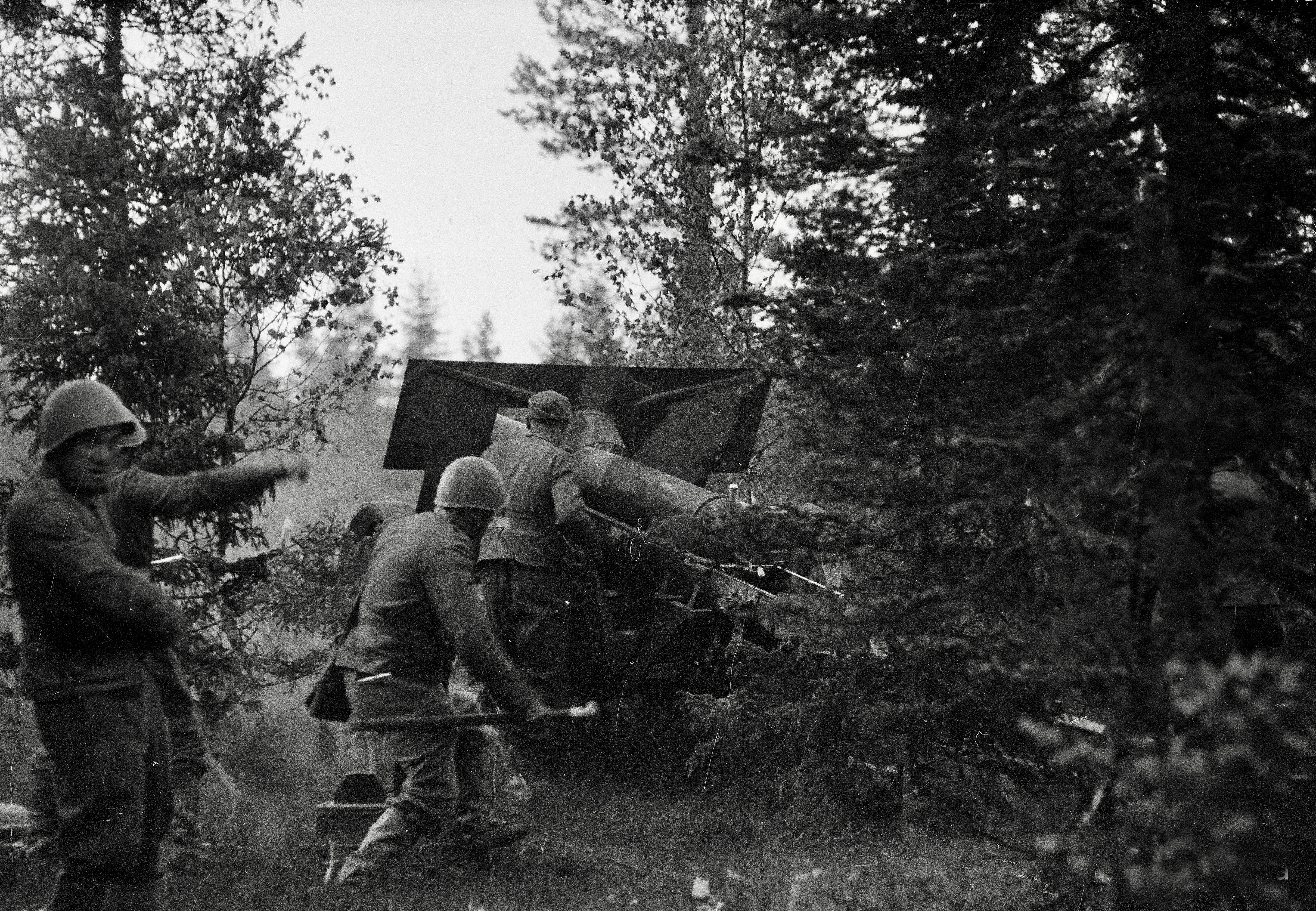 Finnish heavy artillery in action, Vasonvaara. The gun in the photograph can be identified as ex-Polish Wz. 29 Schneider 105 mm gun, Finnish designation 105 K/29